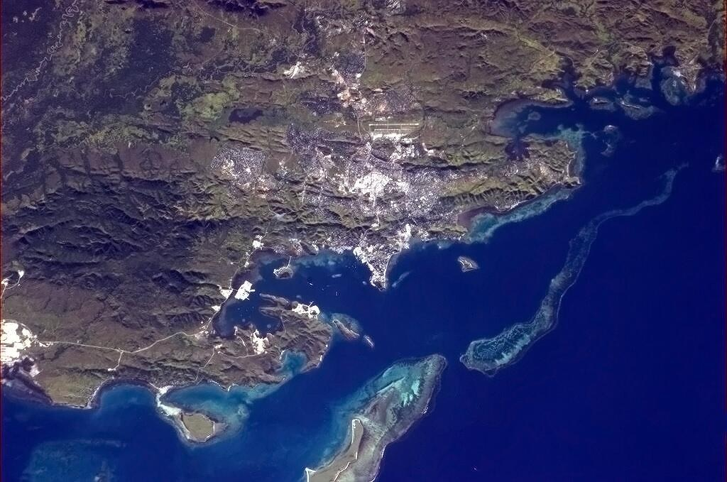 "Port Moresby, capital of Papua New Guinea. I need to learn more about this part of our world." Caption by astronaut Chris Hadfield aboard the International Space Station.